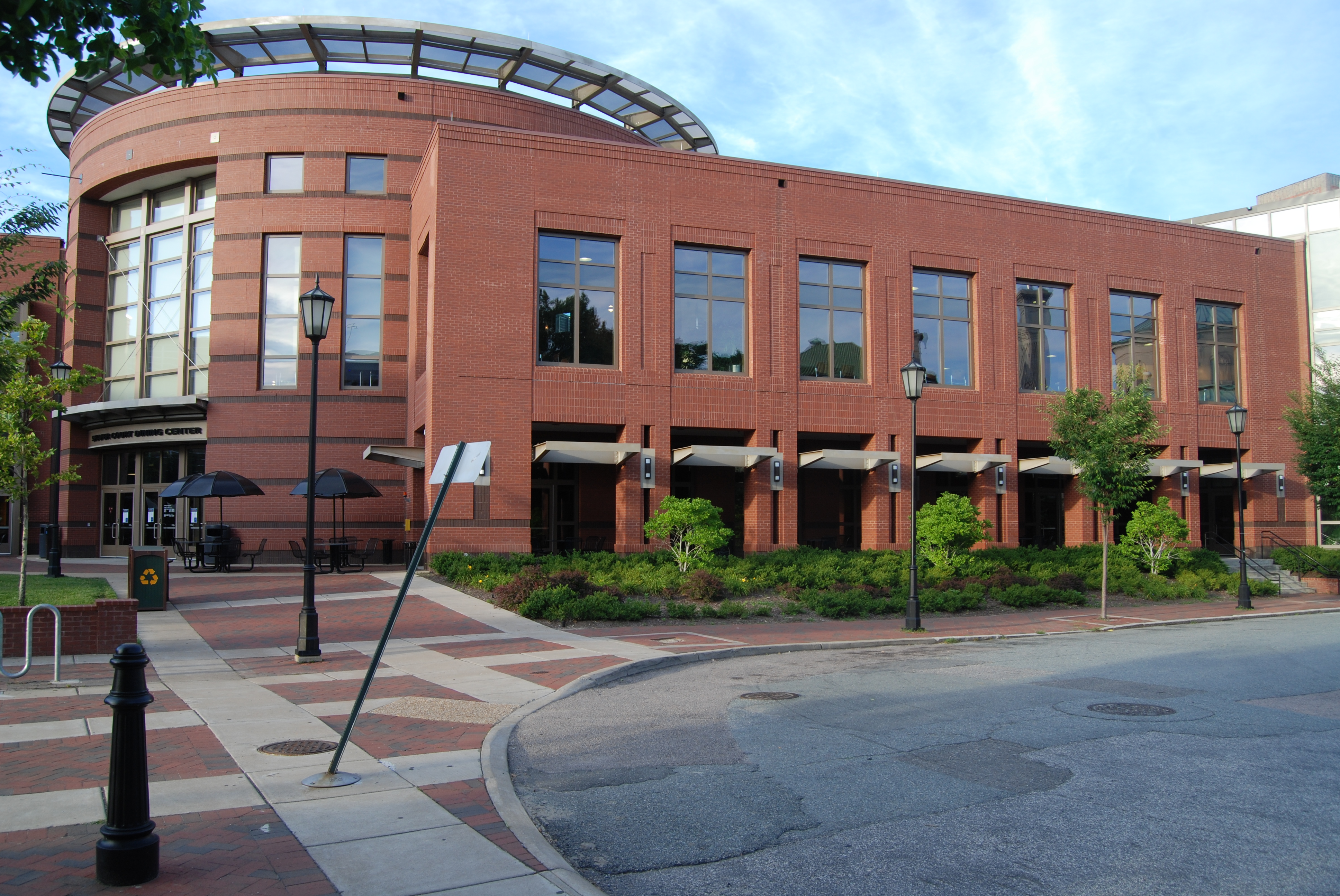 VCU Shafer Dining Center by Jeff Auth